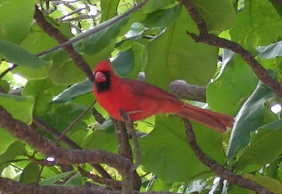 Northern Cardinal (Cardinalis_cardinalis). Island of Kauai, Hawaii Photo by Caracas1830 (2006)